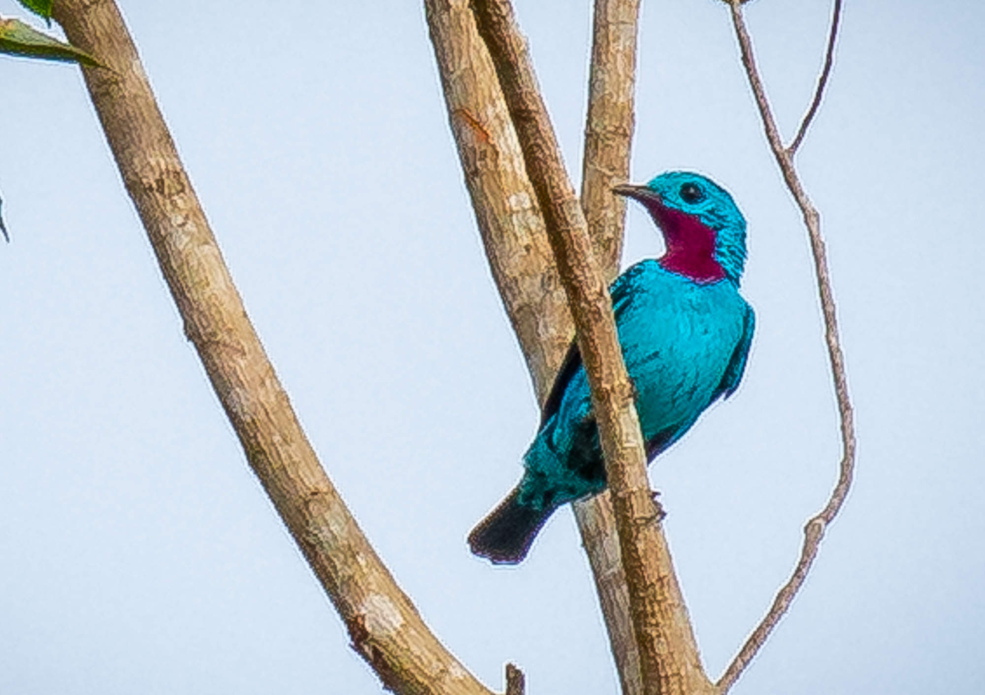 Spangled cotinga (male), Manacapuru, Amazonas, Brazil